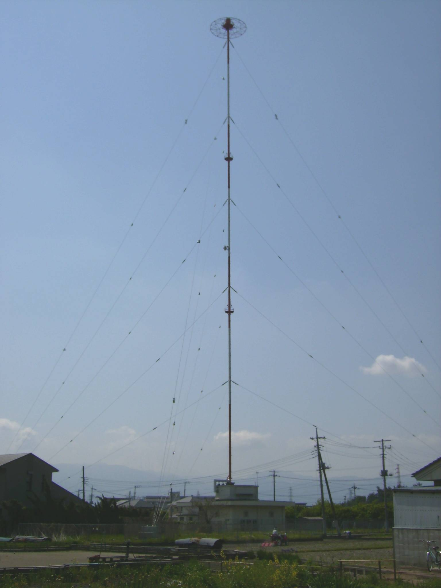 Description: The NHK Kofu Transmitting tower (Kofu, Yamanashi, Japan) for MF radio. Whole view.